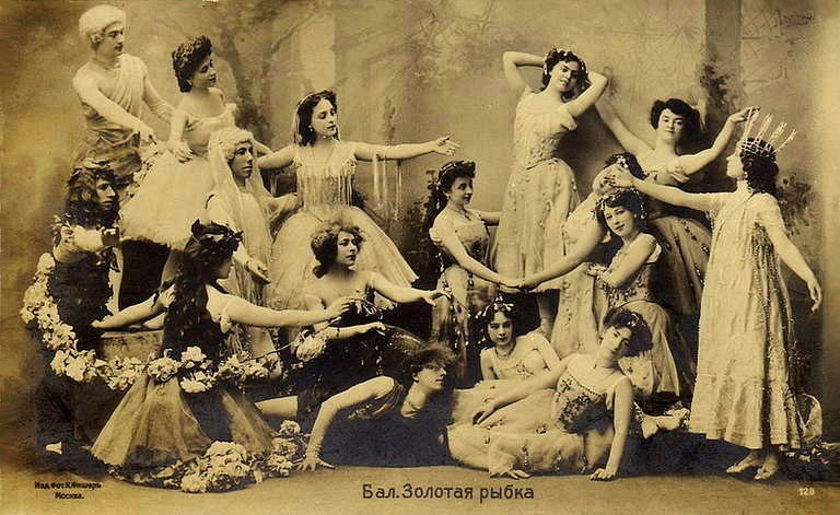 Photo of unknown dancers in Alexander Gorsky's revival of the composer Ludwig Minkus's ballet "Le Poisson doré"